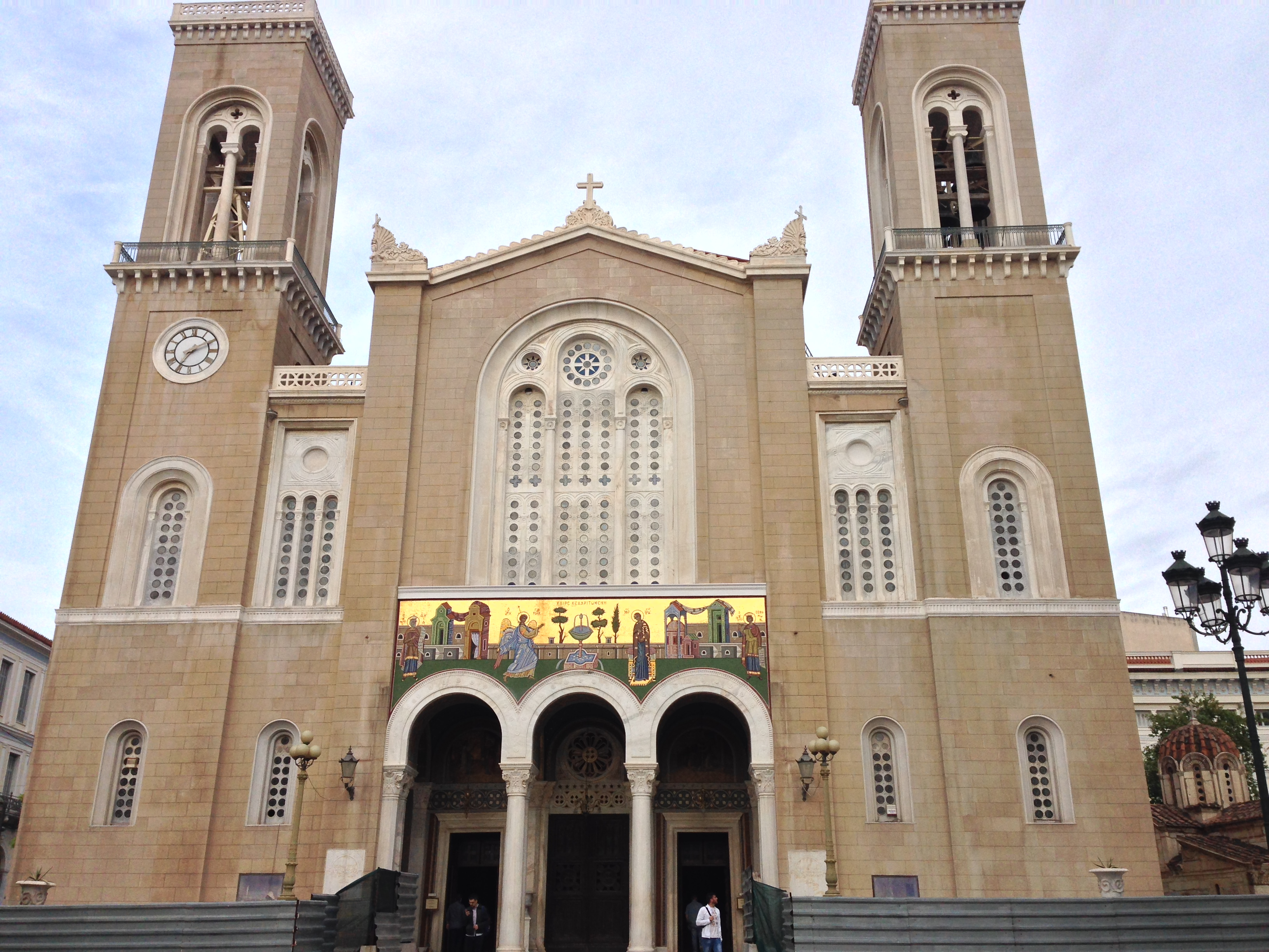 Facade of Metropolitan Cathedral of Athens